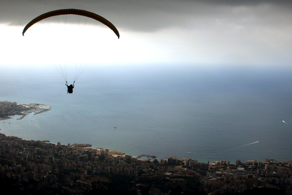 (@ Somewhere around Beirut, Lebanon) Do visit my friend's website